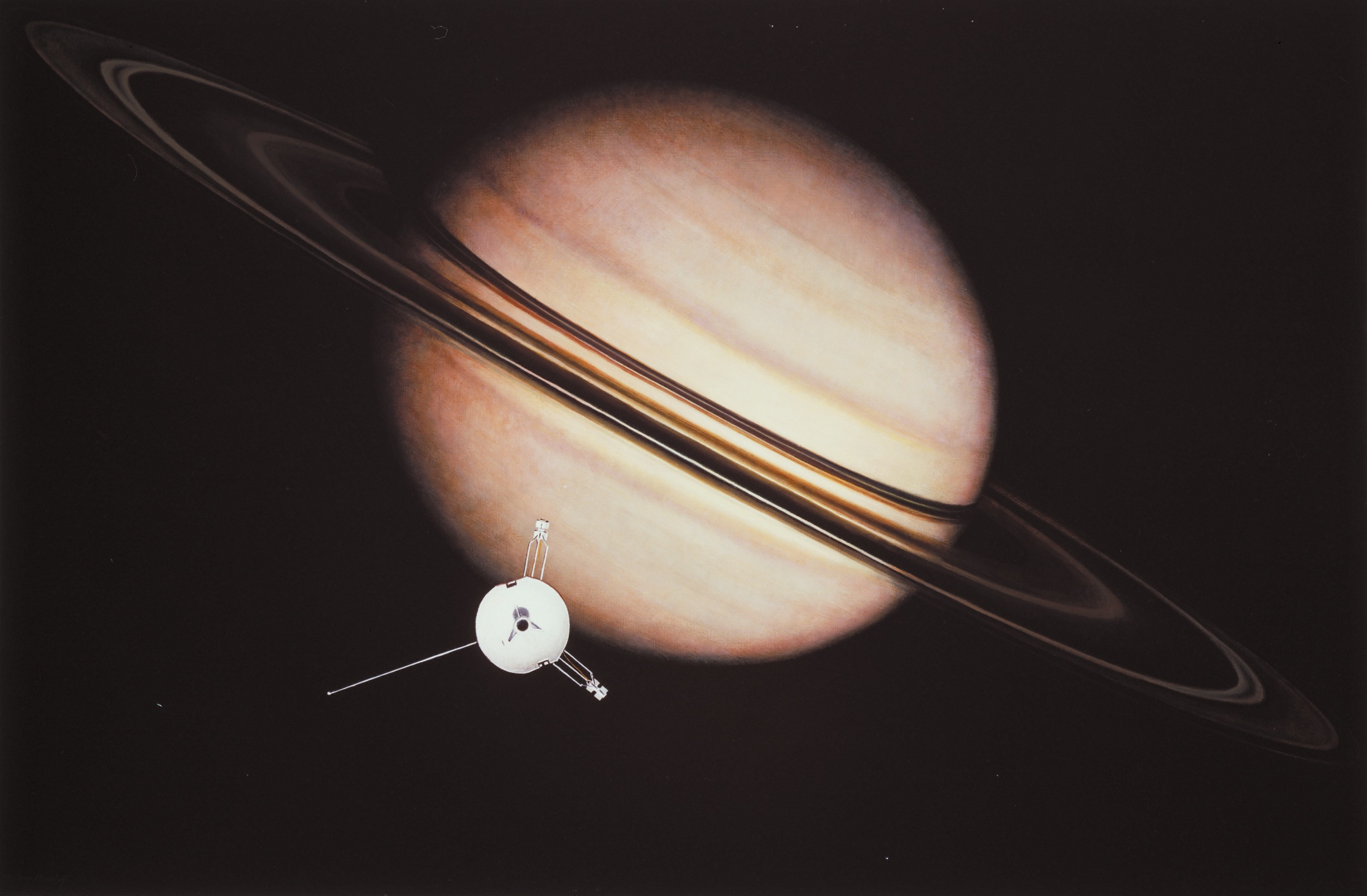 An artist's impression of the encounter between Pioneer 11 and Saturn